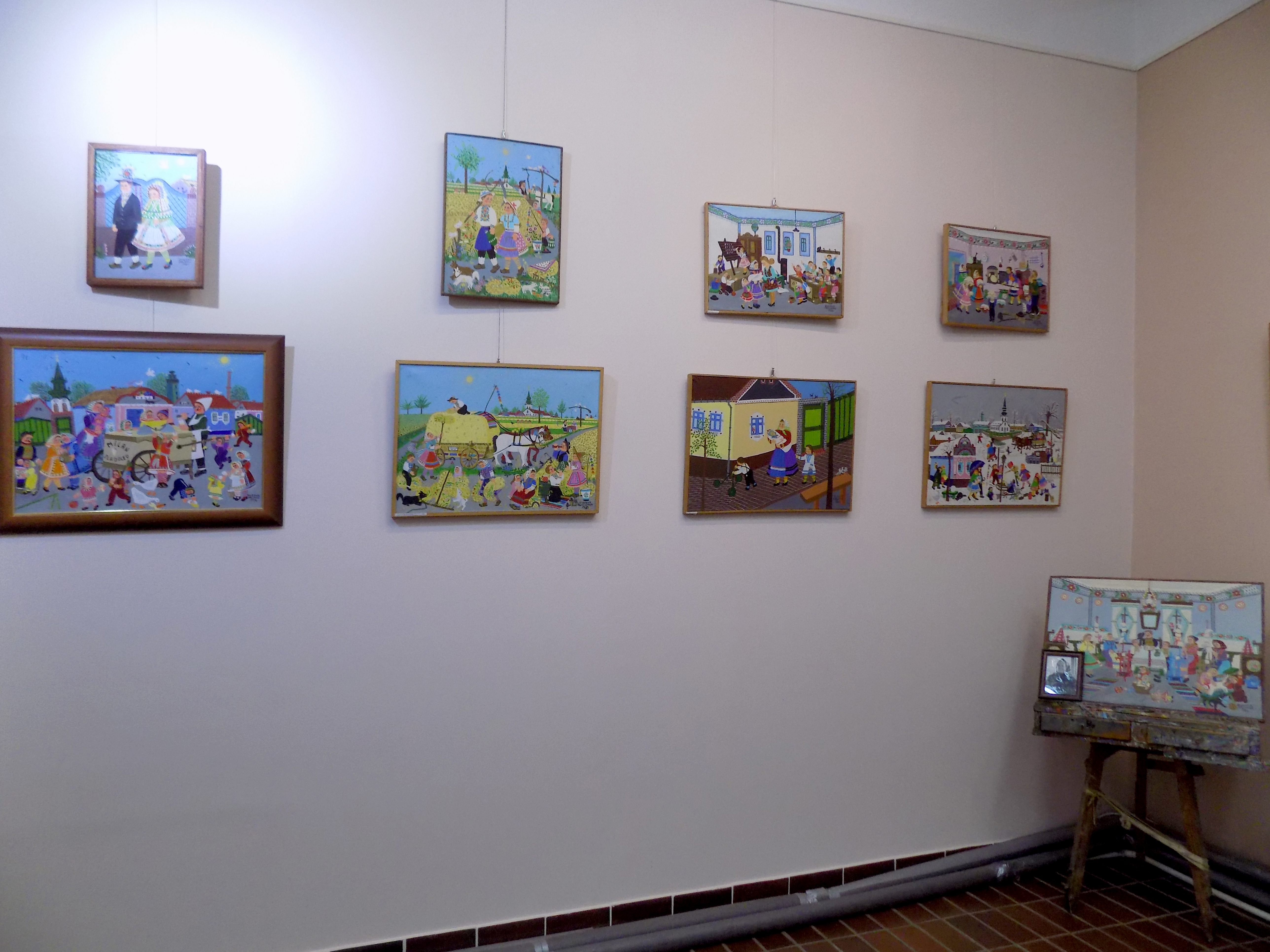 A space dedicated to the character and work of Zuzana Chalupová in the Gallery of Naive Art in Kovačica